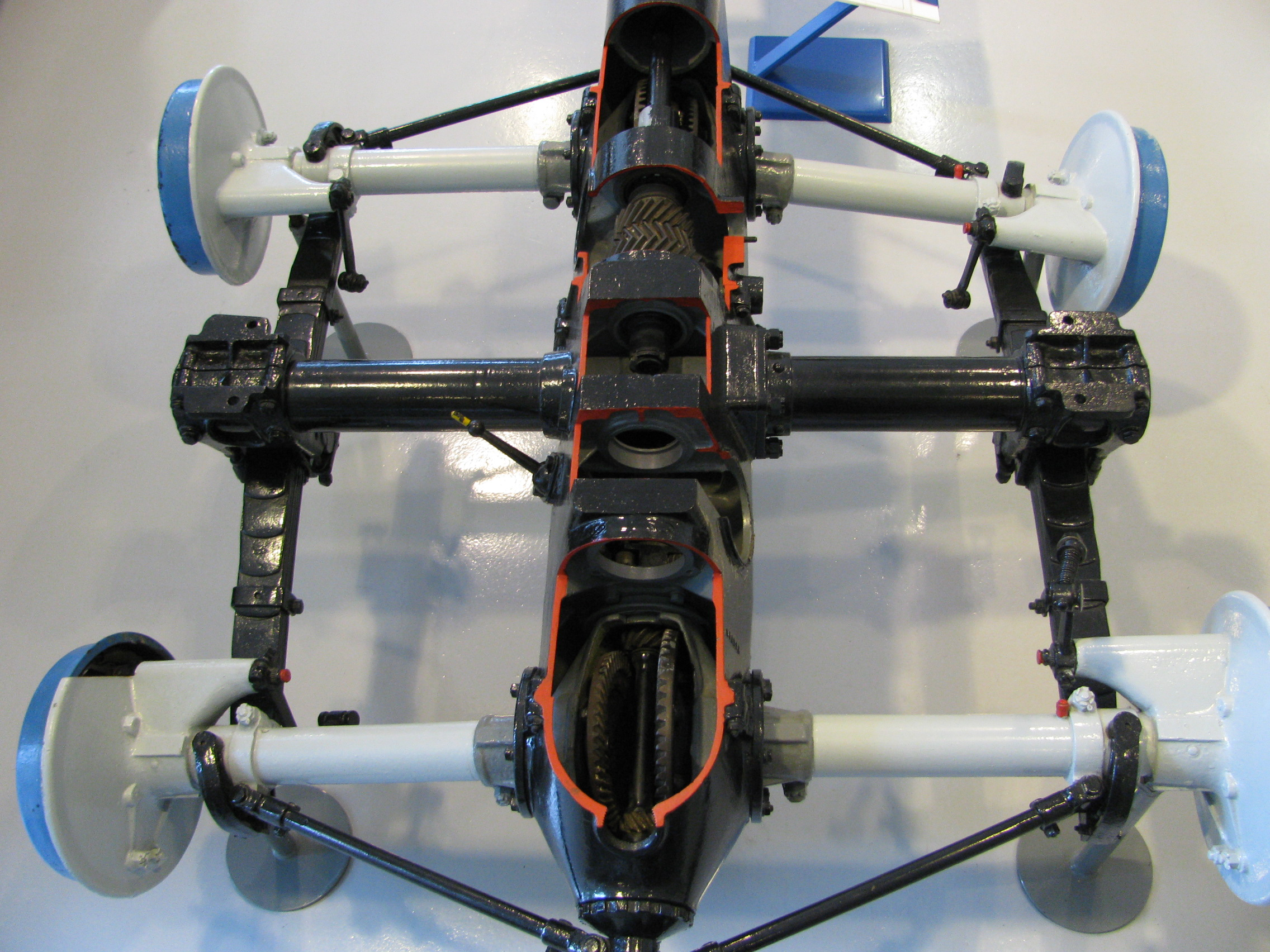 Rear axles of Tatra T26/30 in Tatra technical museum, Kopřivnice, Czech republic.